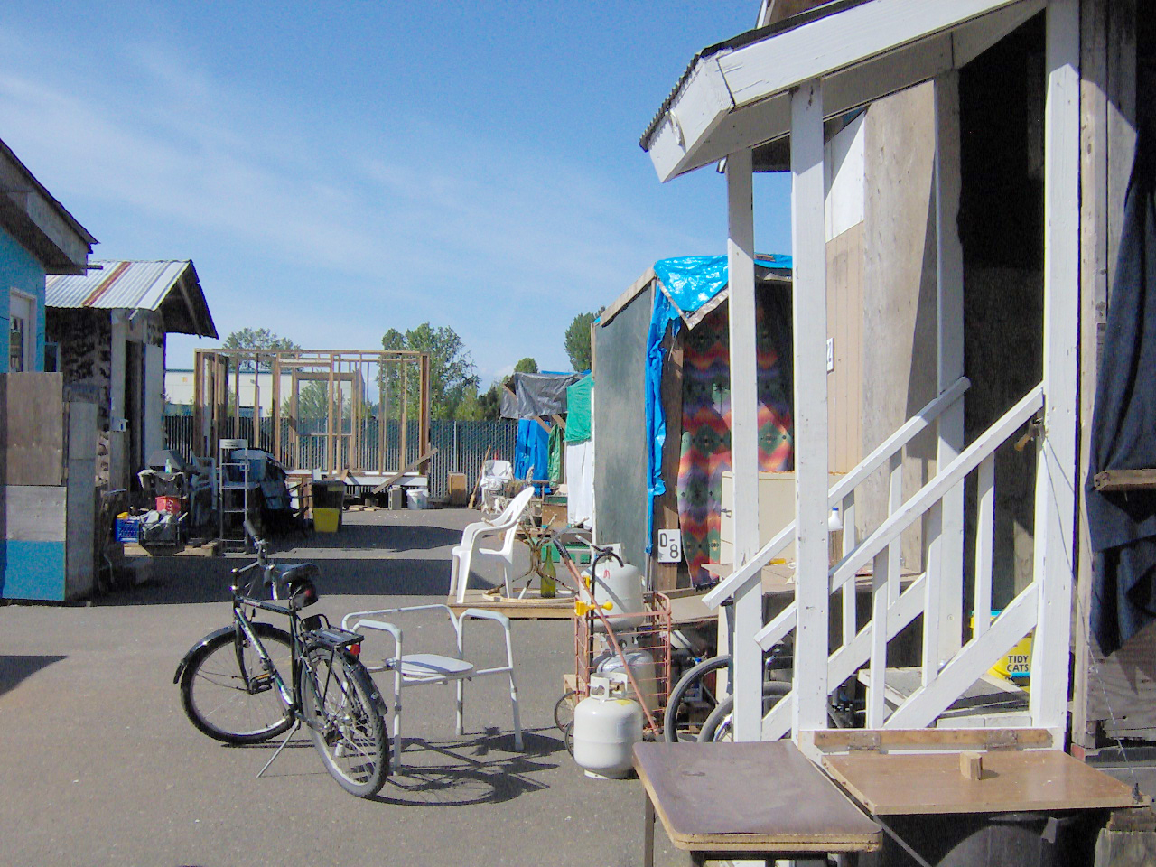 Side Street in Dignity Village At any time, there are dozens of shelters at Dignity Village, ranging from tarp shelters to substantial wood or adobe "homes" measuring up to 10 by 15 feet. As shelters wear, their materials are recycled to fashion new structures. Photo by David Hull - (April 29,2007). Released without limitation to public domain. No attribution required. VanBrigglePottery 18:45, 1 May 2007 (UTC)